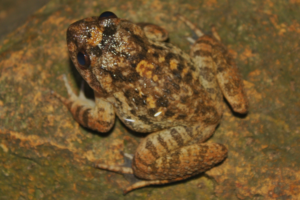 Taken in Pat Sin Leng Country Park.